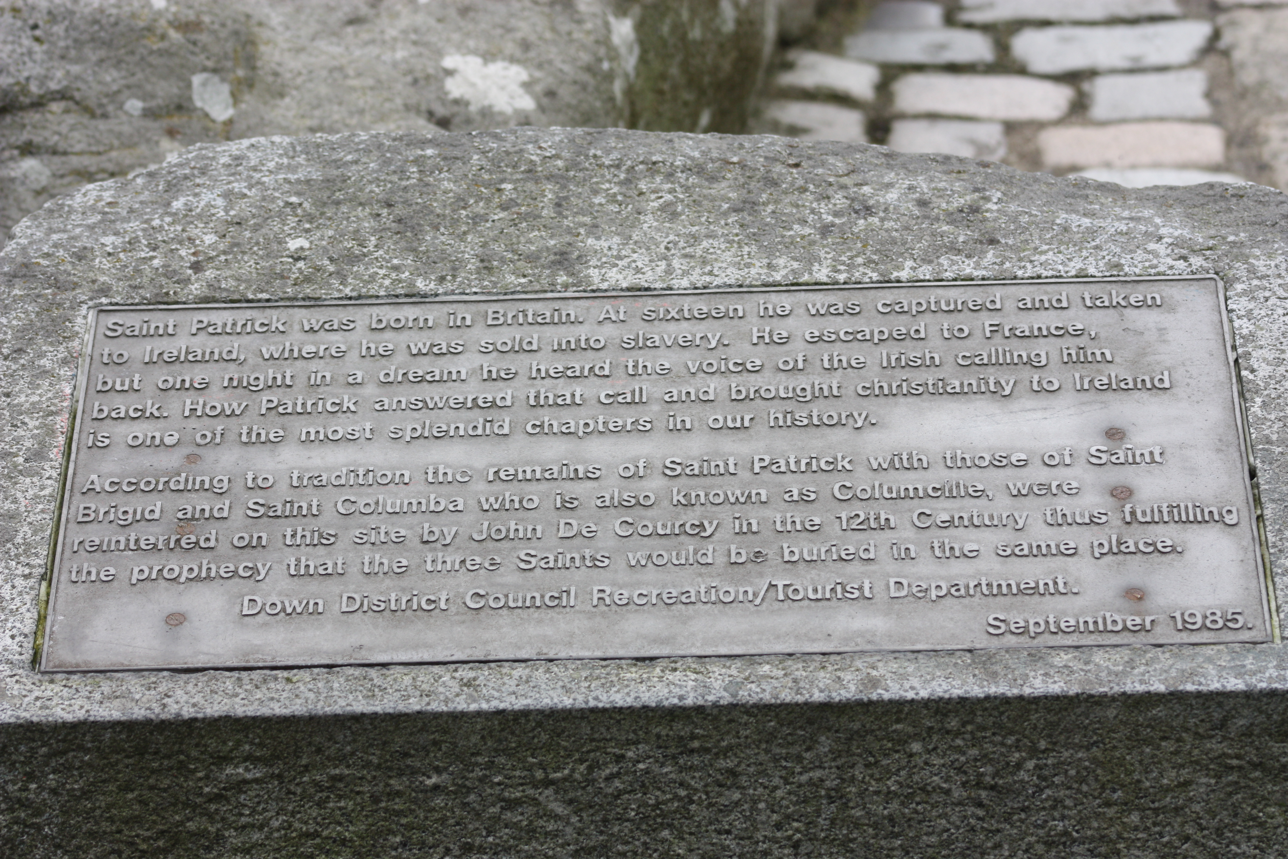 Saint Patrick's Grave, Cemetery at Down Cathedral, The Mall, English Street, Downpatrick, County Down, Northern Ireland, August 2009